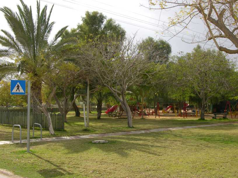 Idan